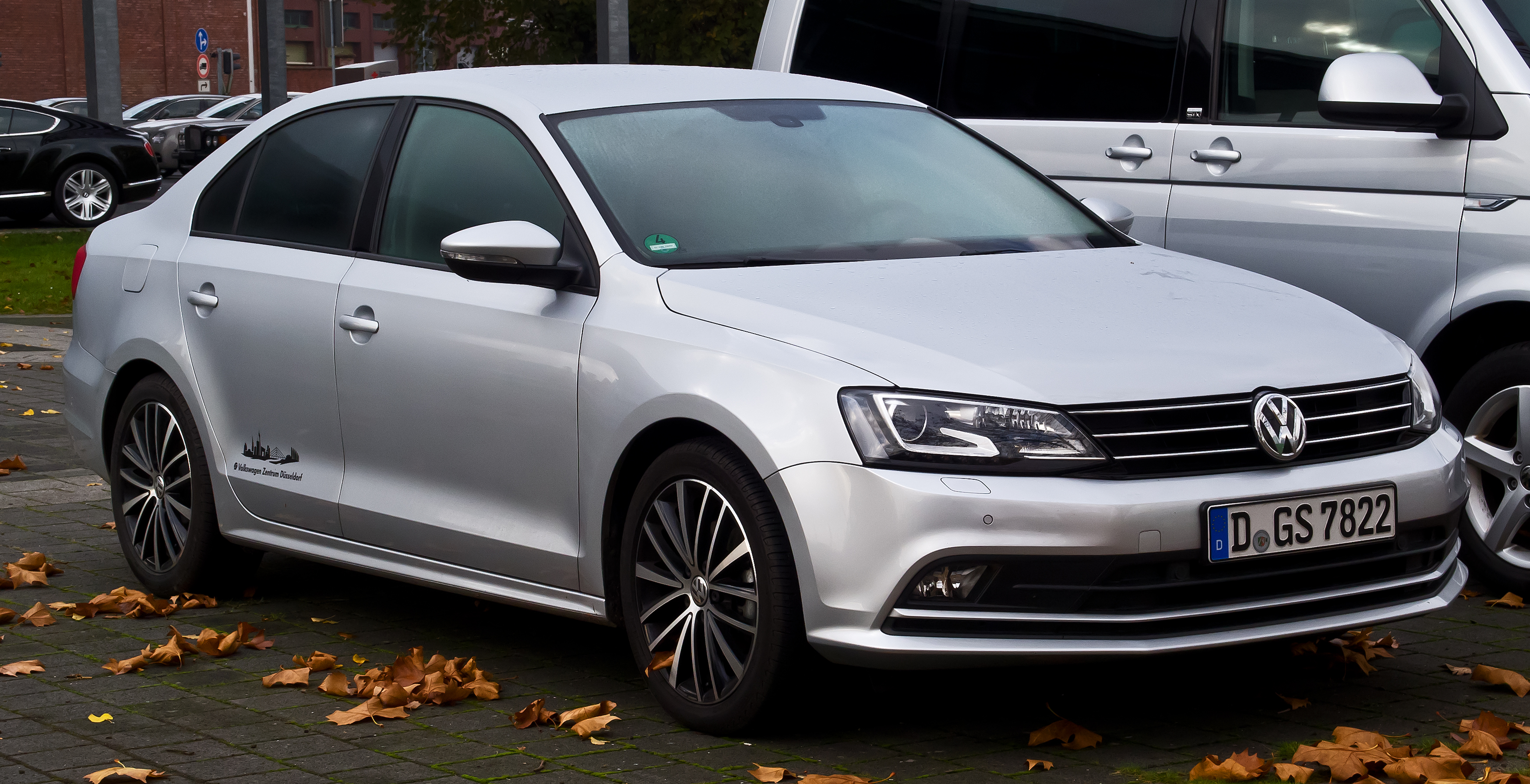 VW Jetta 2.0 TDI BlueMotion Technology (VI, Facelift)